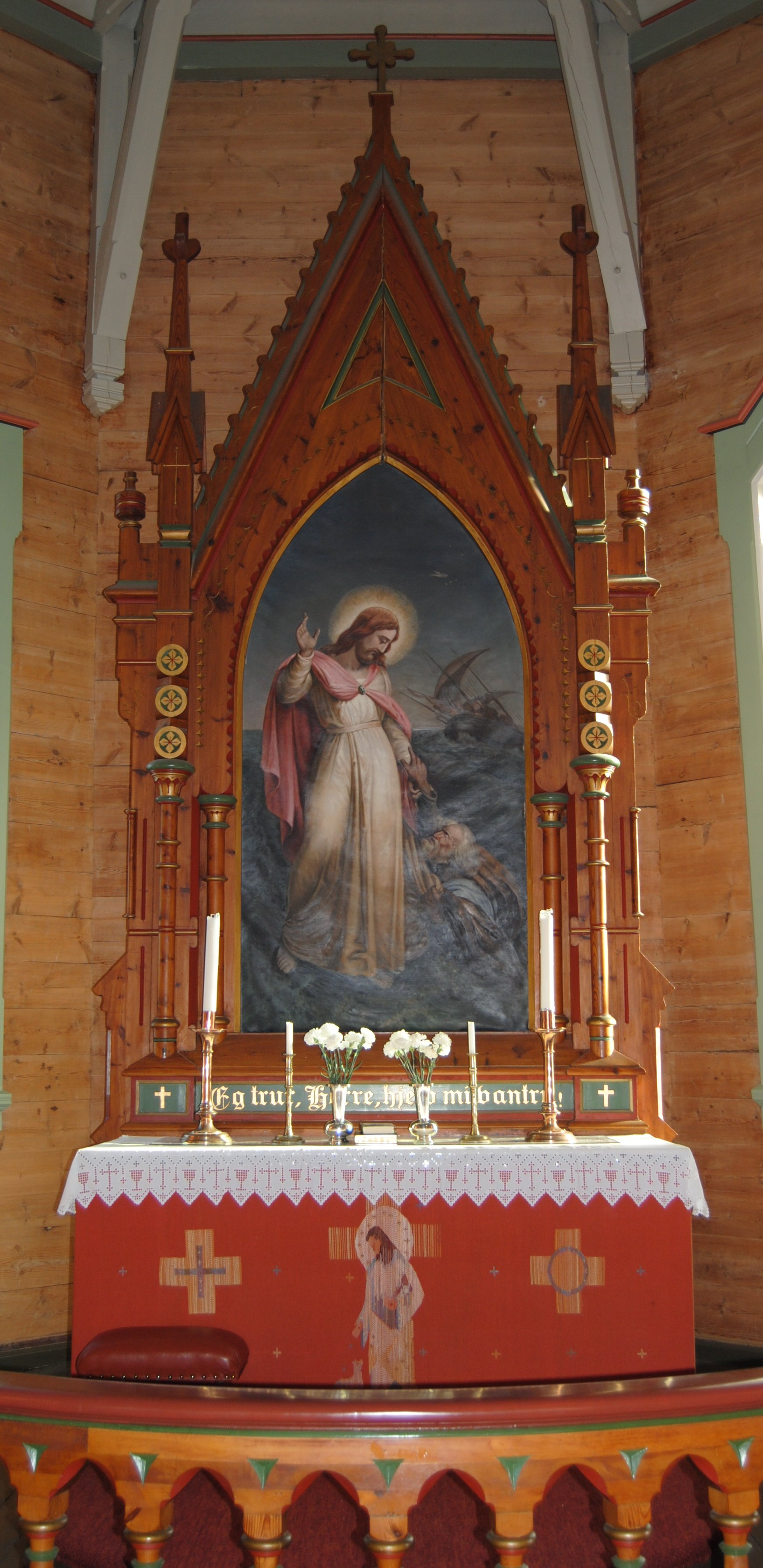 Altar in Manger church, Norway